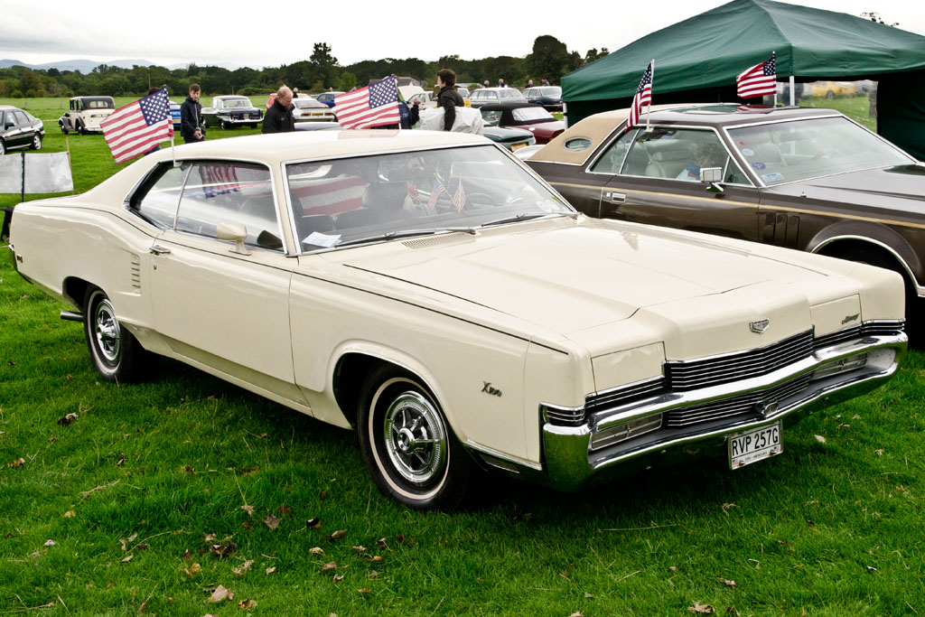 ST Asaph Classic Car Show 16/09/2012